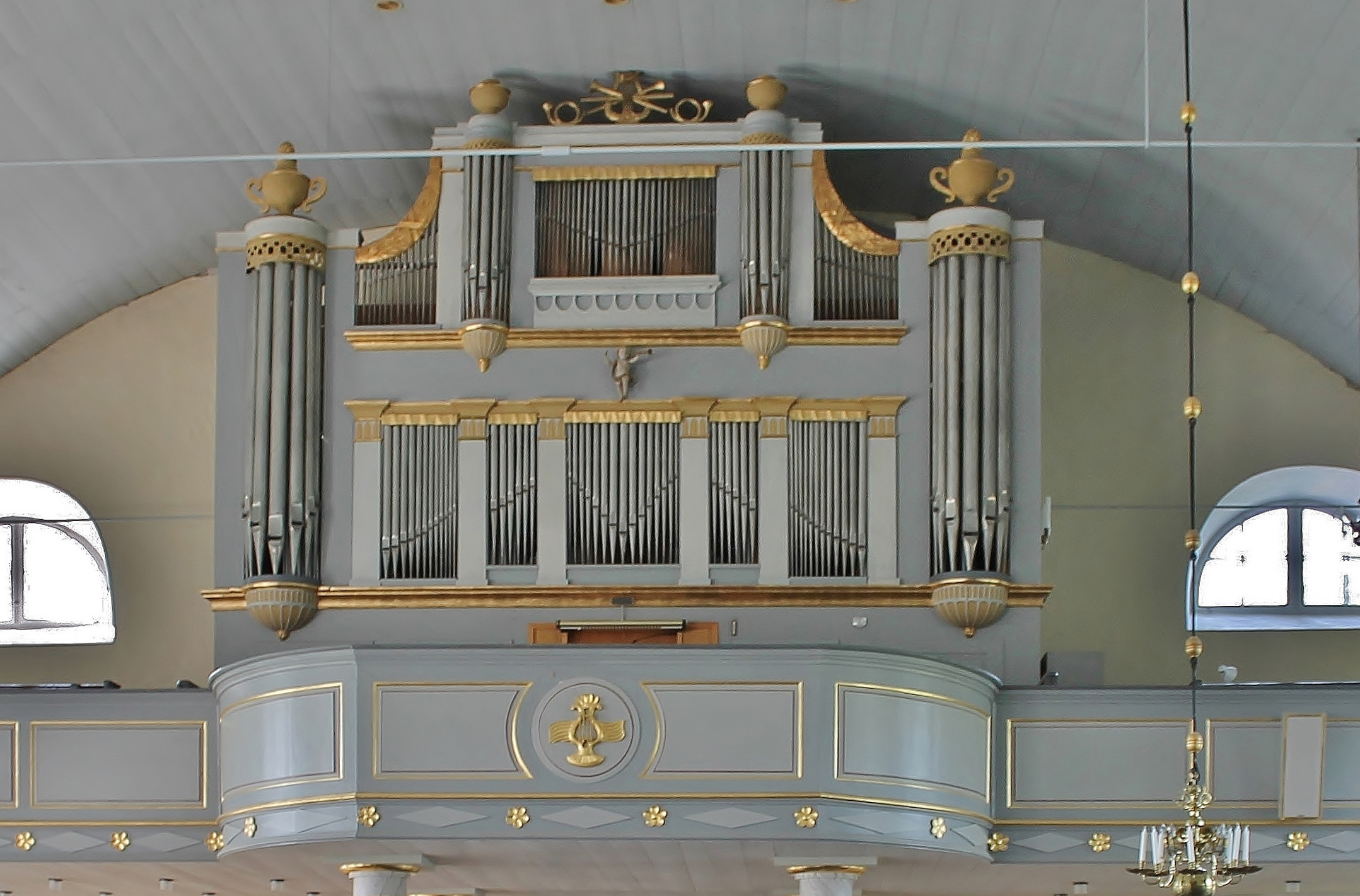 Hjortsberga Church.The organ